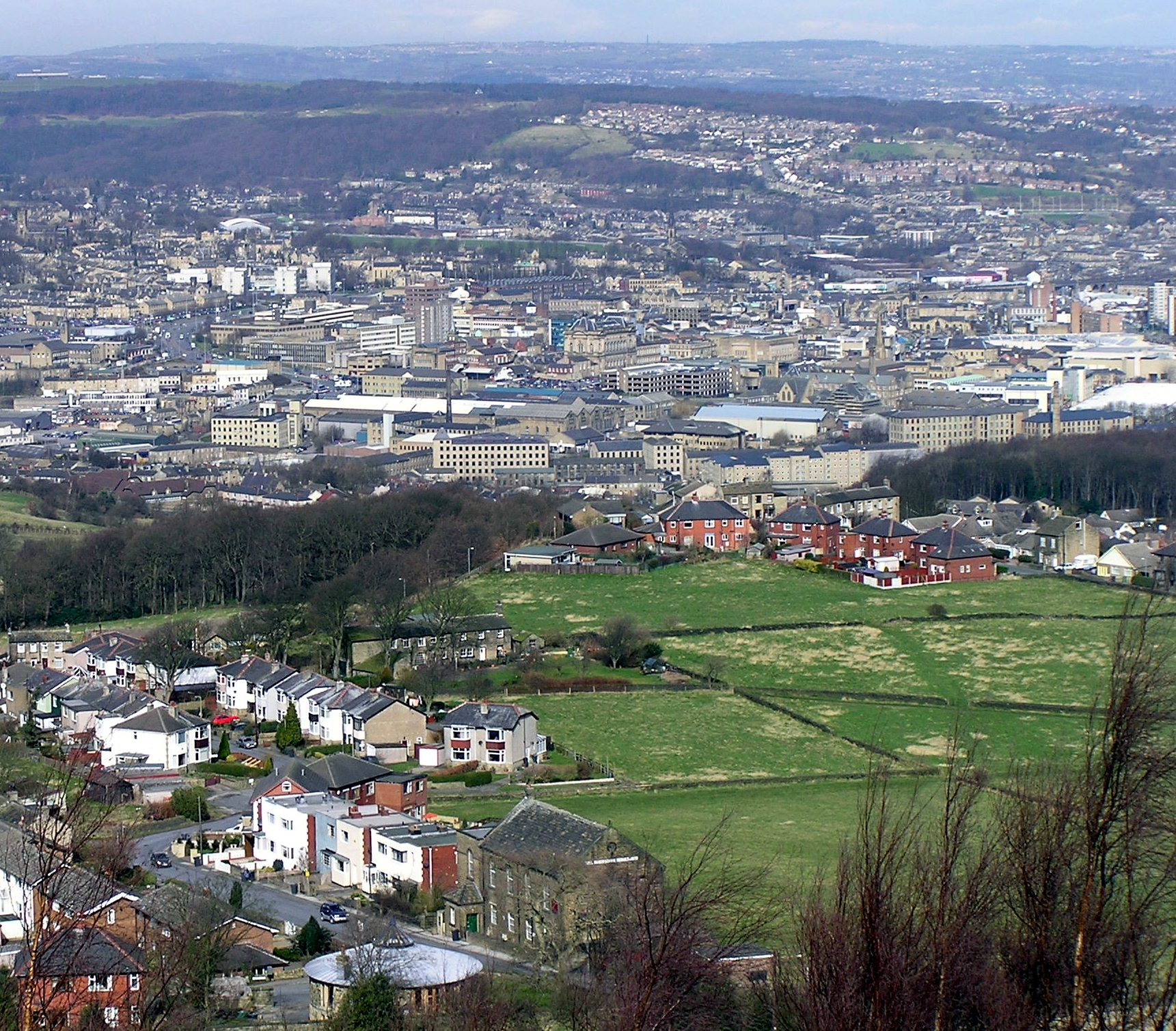 Huddersfield Town, viewed from Castle Hill, overlooking Lowerhouse and Town centre area.